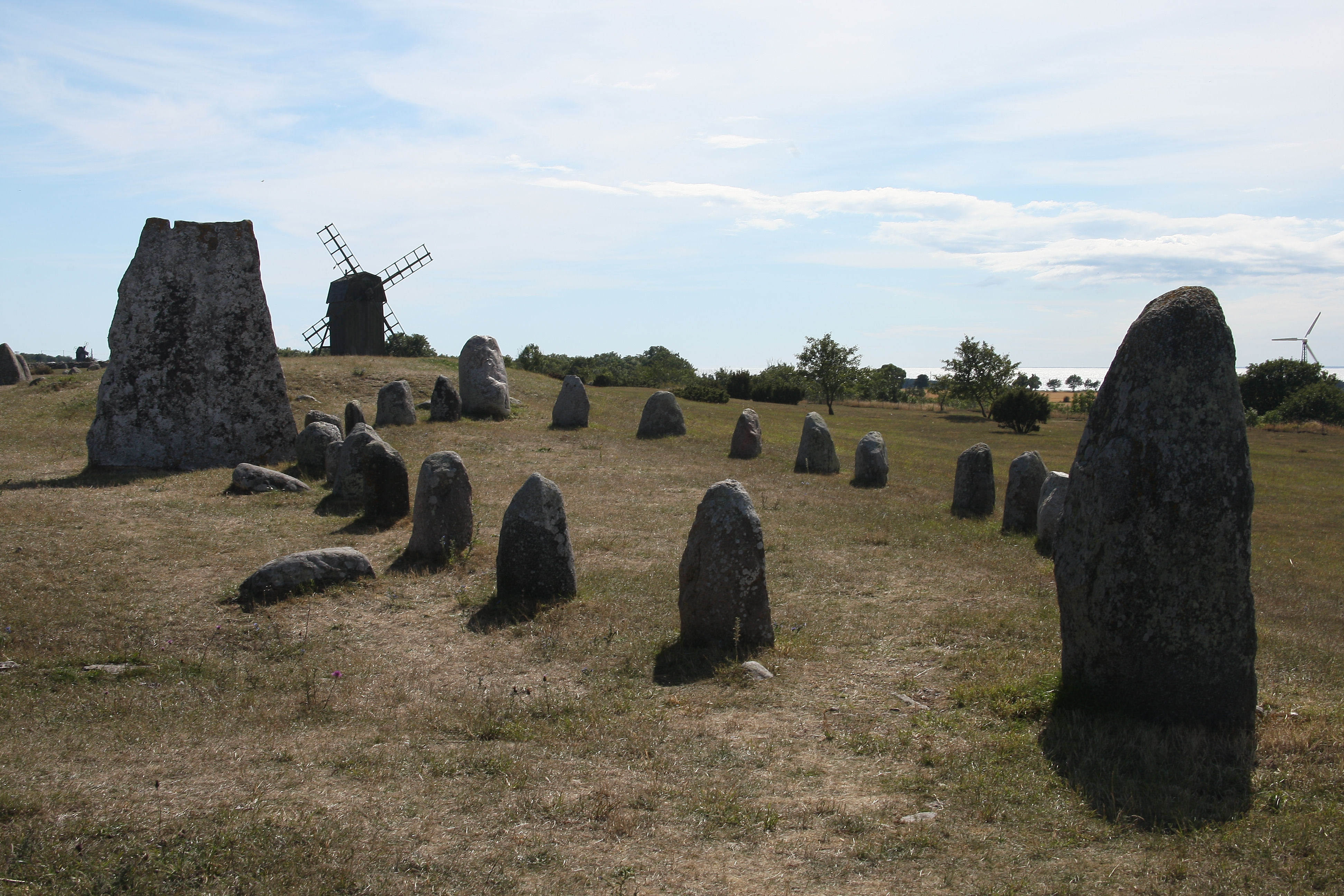 Gettlinge burial ground, remains of a grave shaped like a longboat